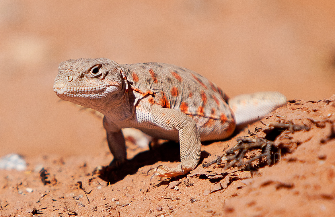 (NPS Photo by Andrew Kuhn)